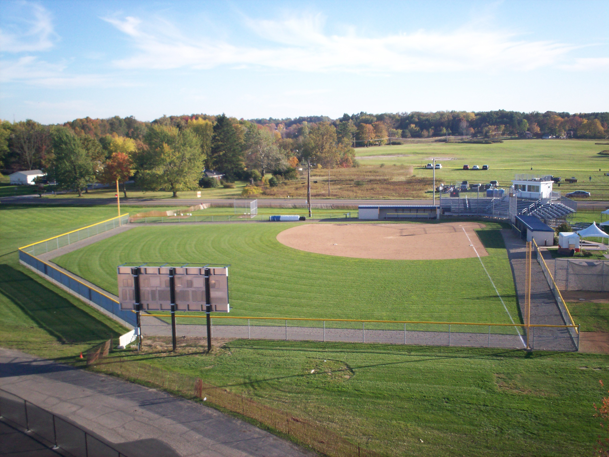 View of Kent State University's main softball field, Diamond at Dix, as seen from Dix Stadium.